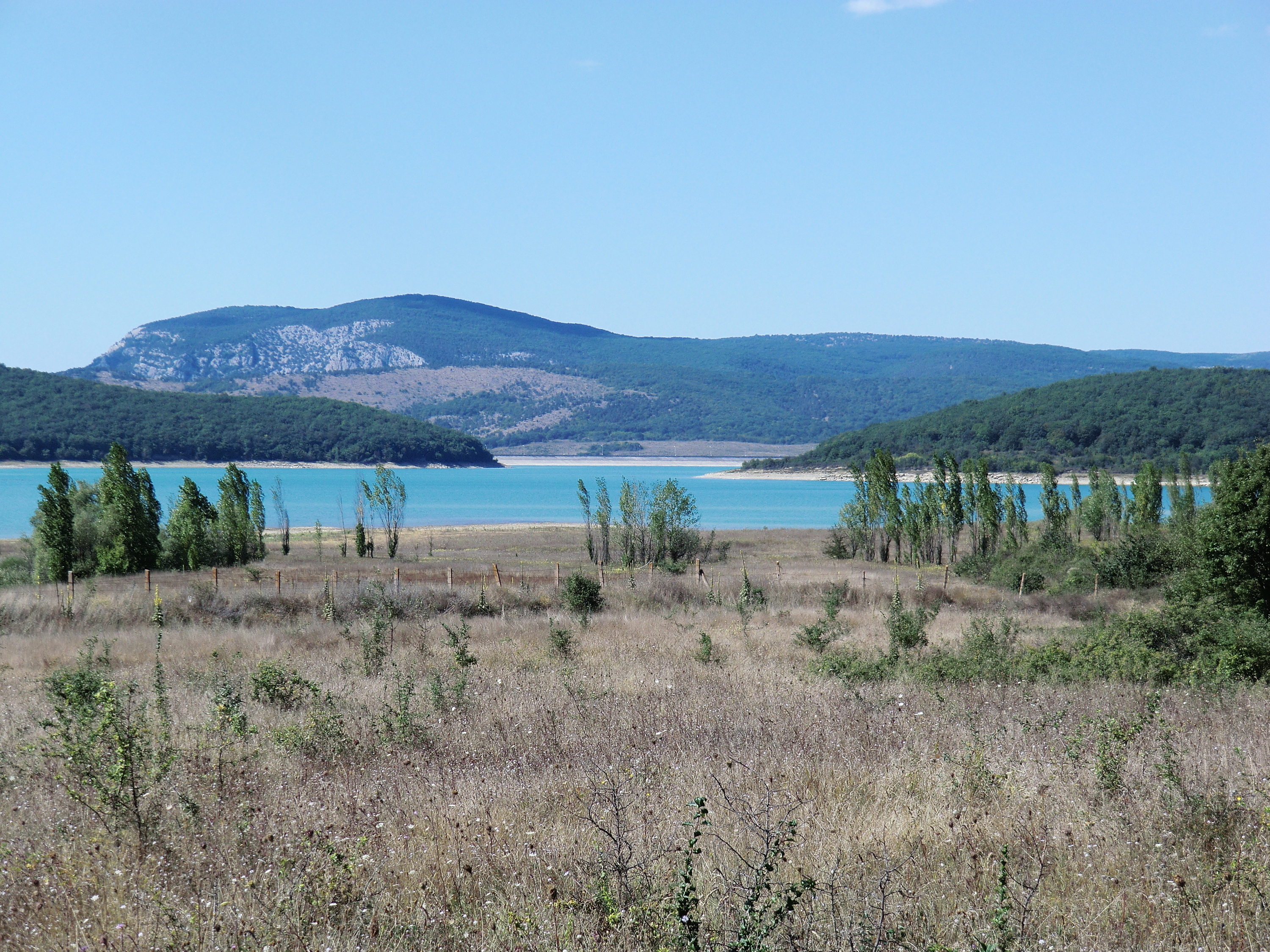 Ukraine, Cremea, Chernorechensky reservoir